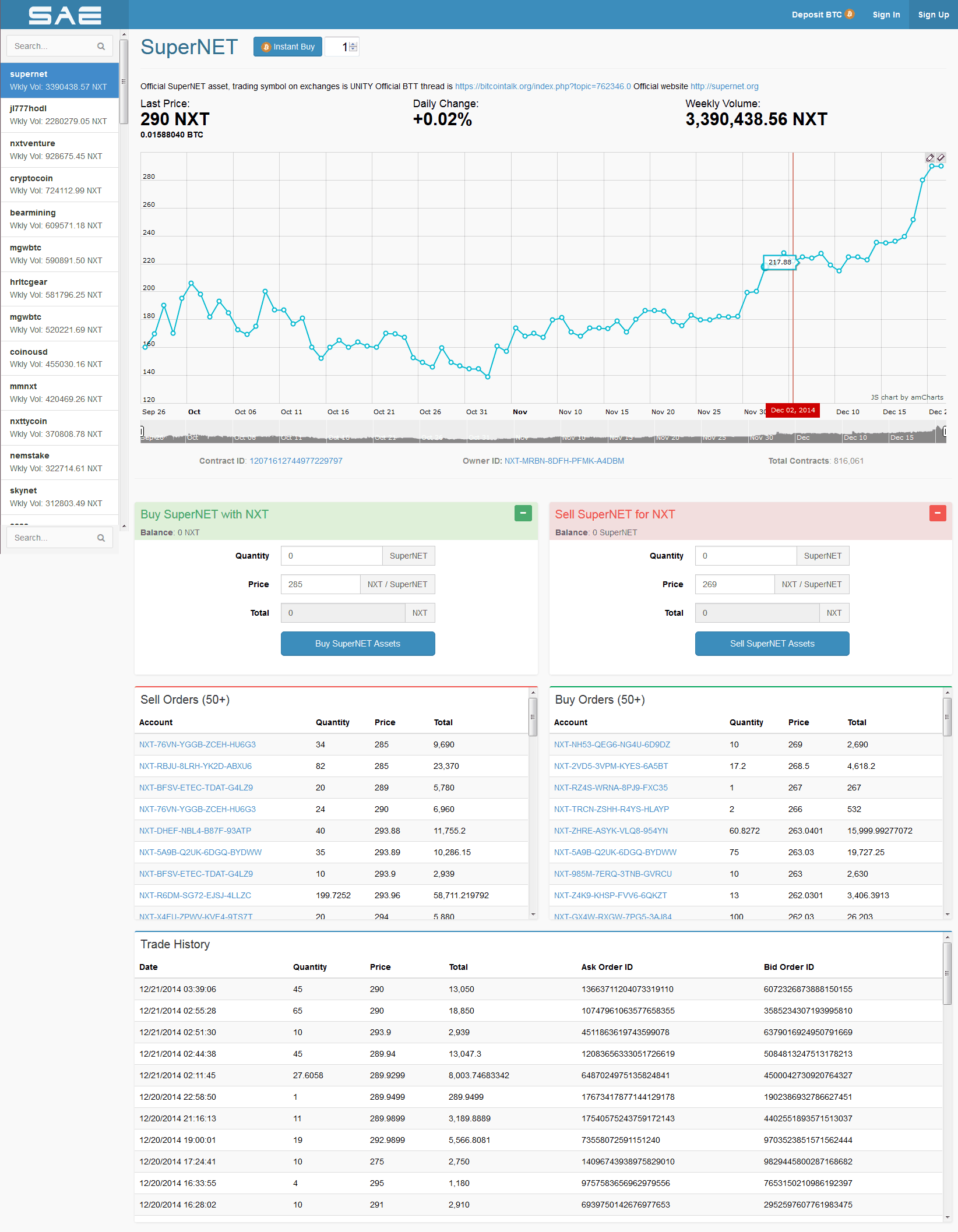 Screenshot of the SecureAE Asset Exchange window